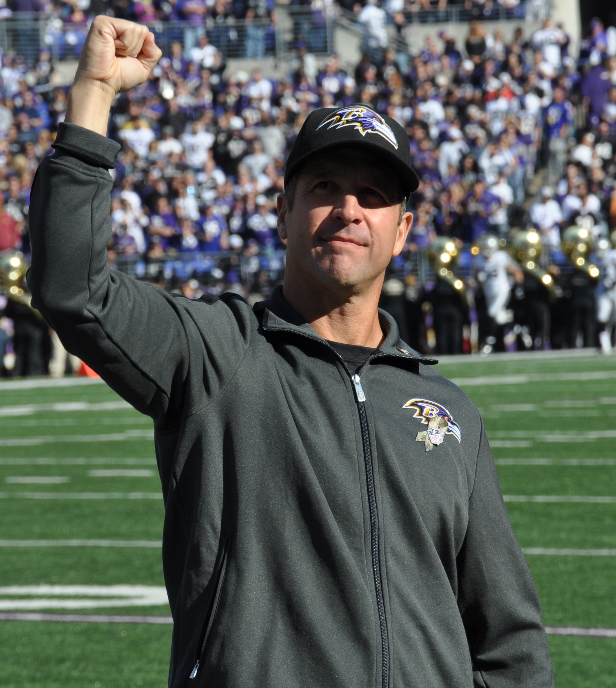 Baltimore Ravens head coach, John Harbaugh, celebrated Veterans Day and honored veterans before a game against the Oakland Raiders at M&T Bank Stadium on November 11, 2012.